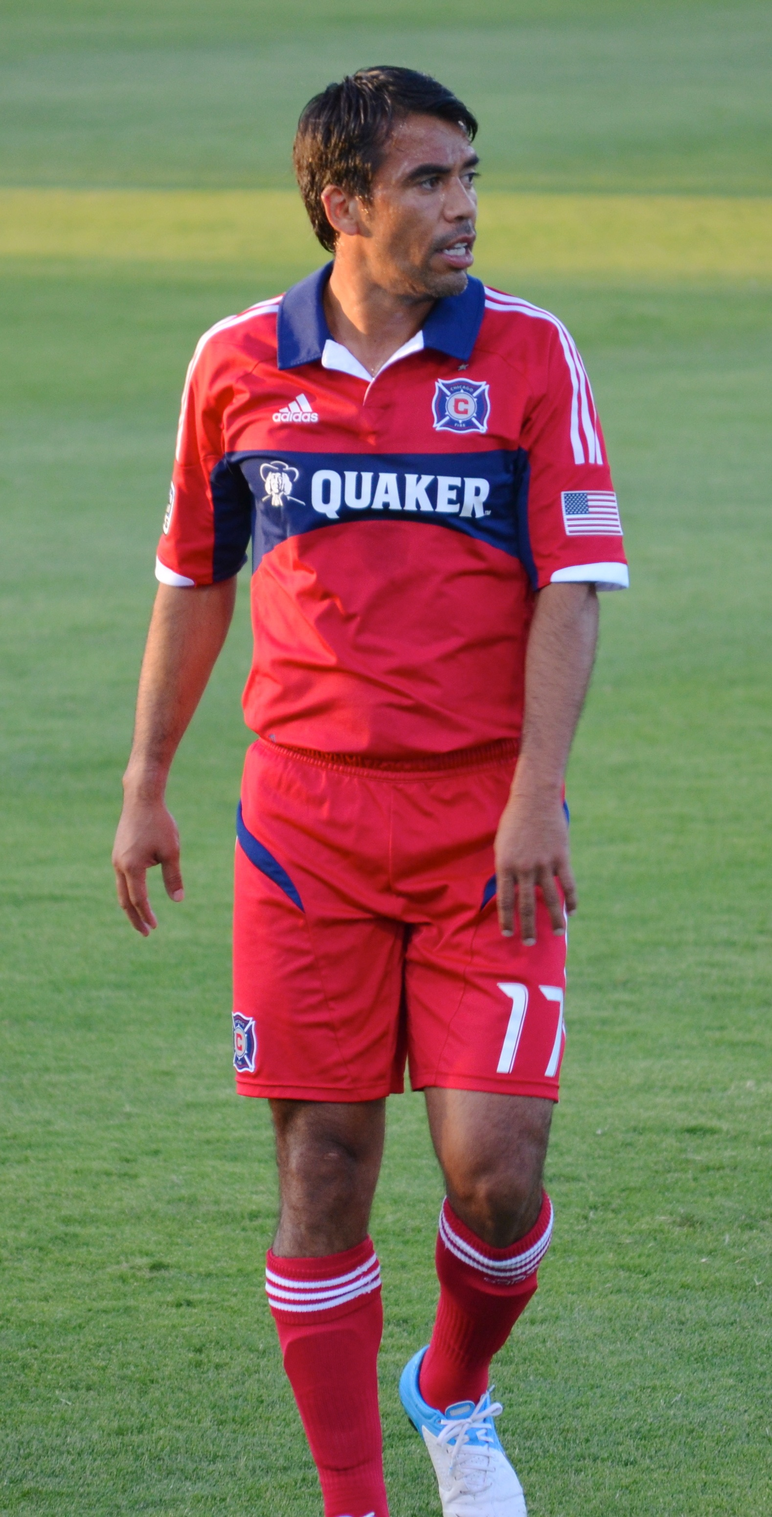 Pável Pardo at Buck Shaw stadium 28 July 2012.